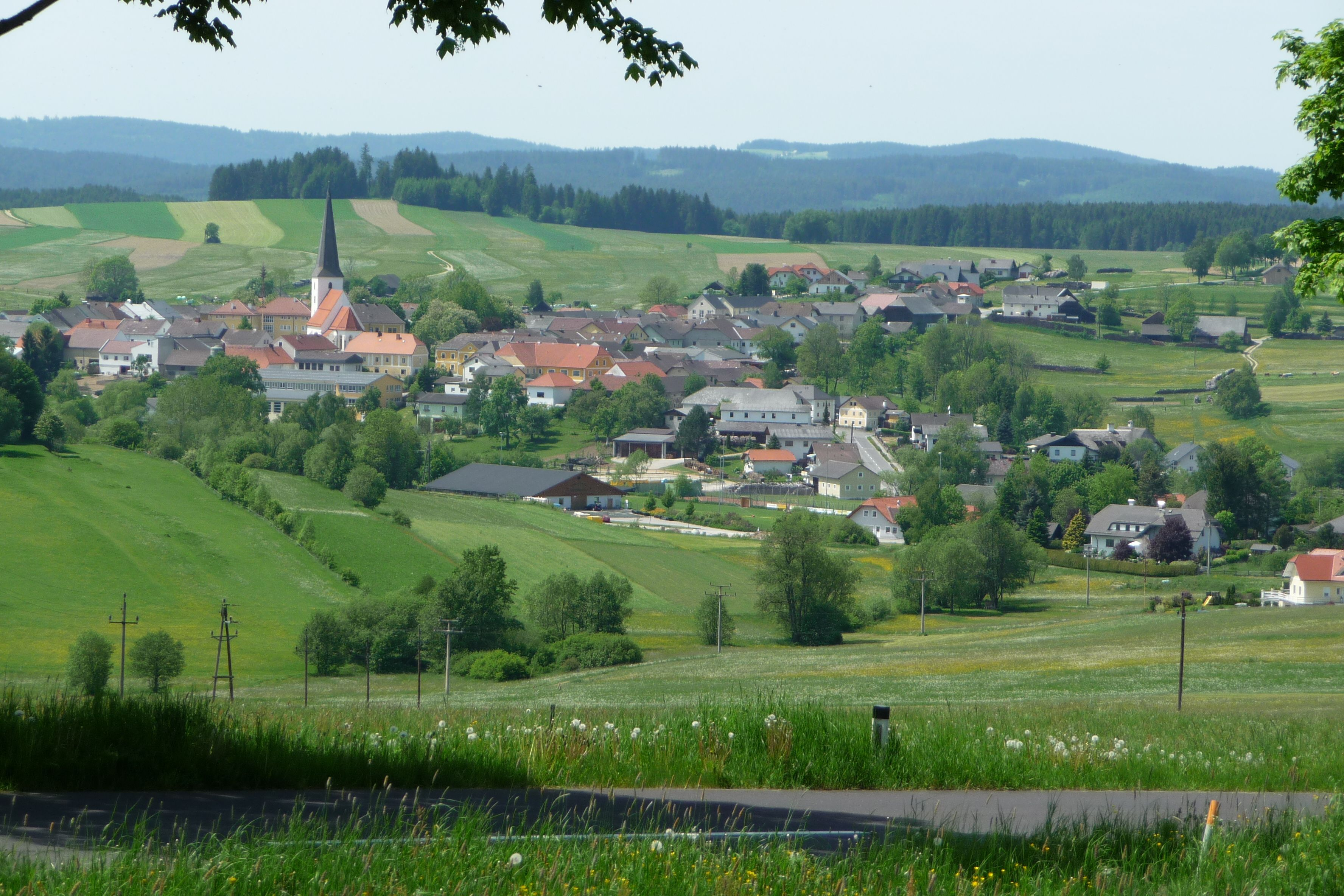 View of Schenkenfelden